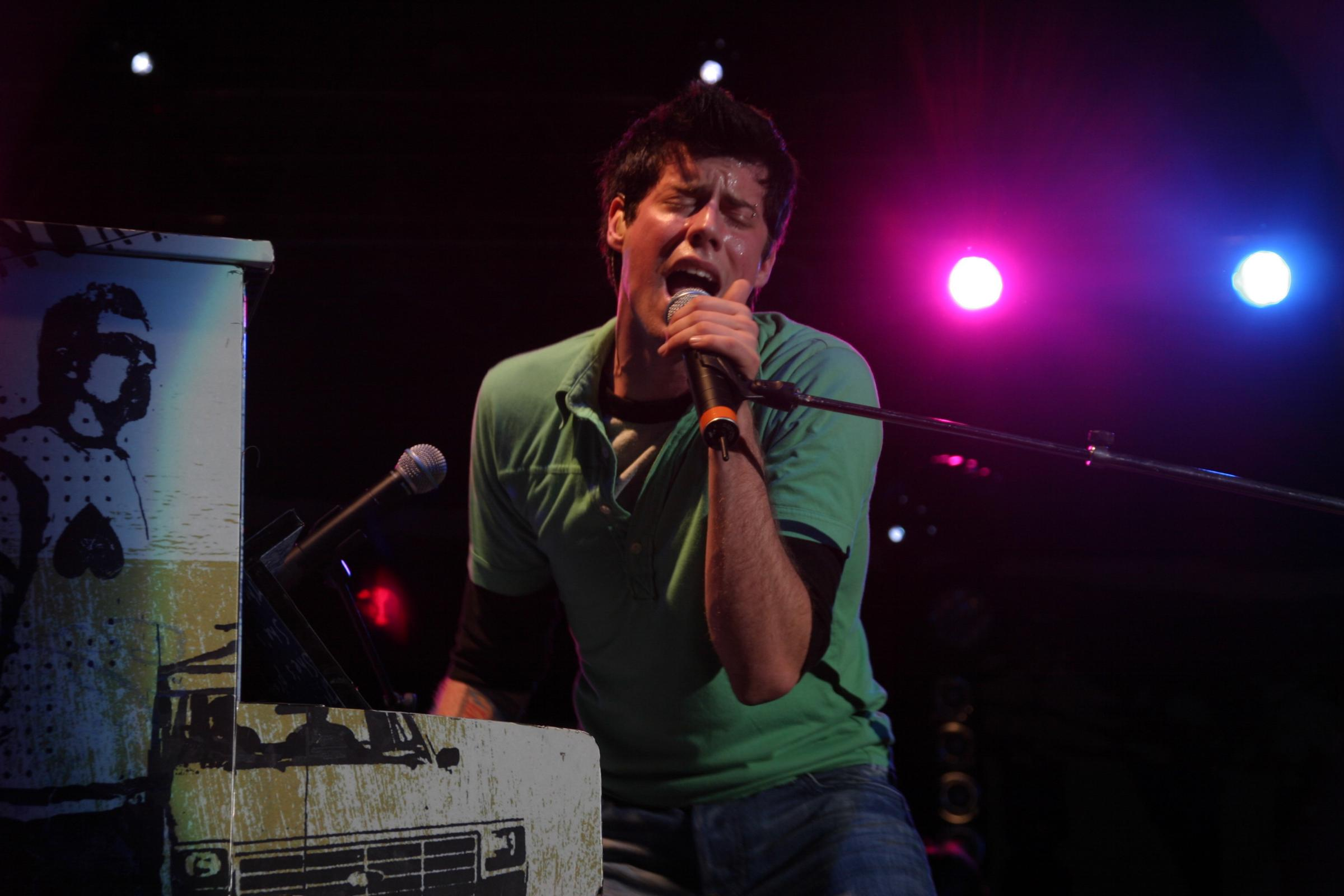 this picture is the lead singer of Something Corporate and Jack's Mannequin, Andrew McMahon